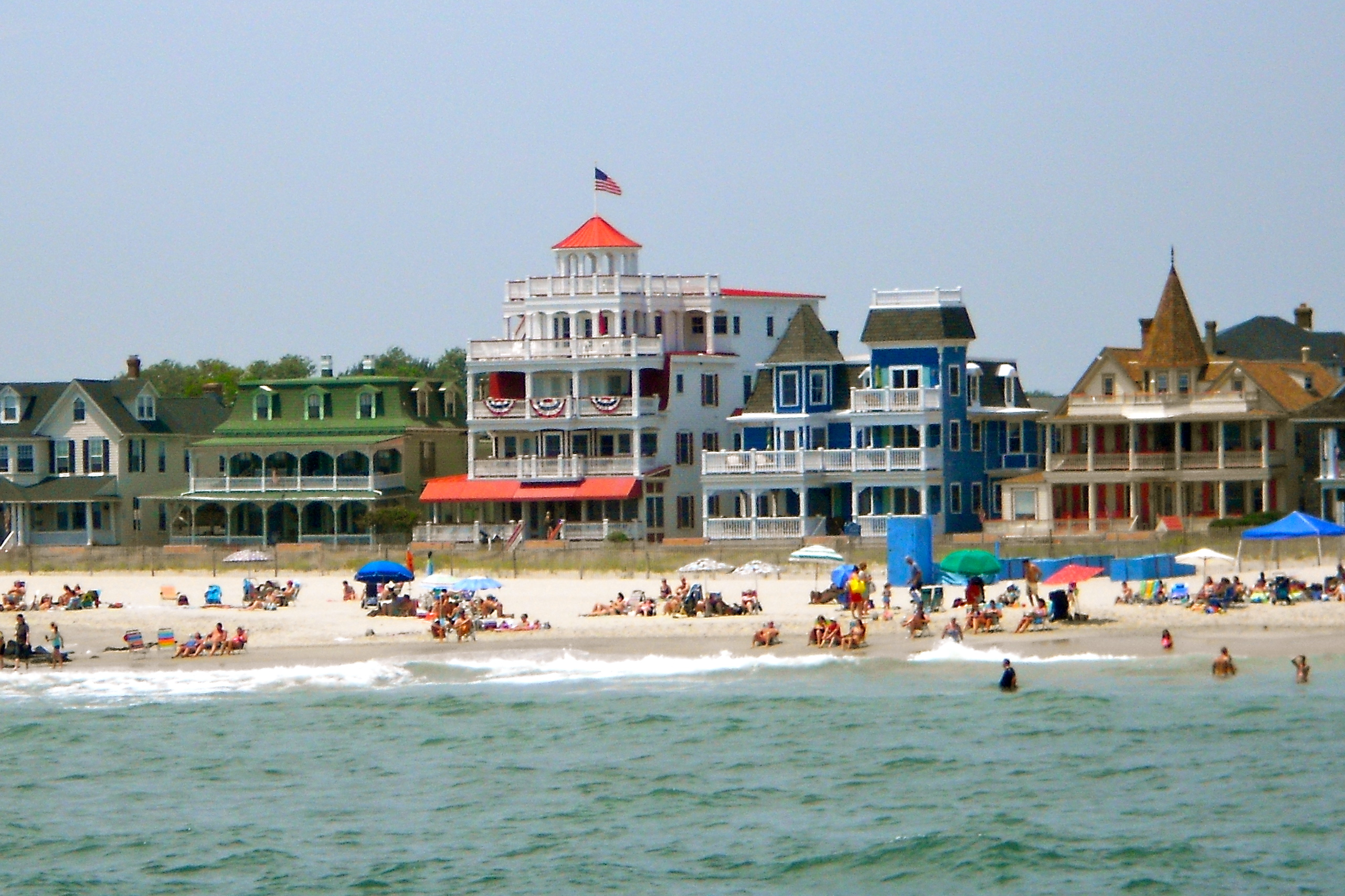 Houses on Beach Avenue in Cape May (city), New Jersey. Photo taken from the sea. In Cape May Historic District listed as a National Historic Landmark district.